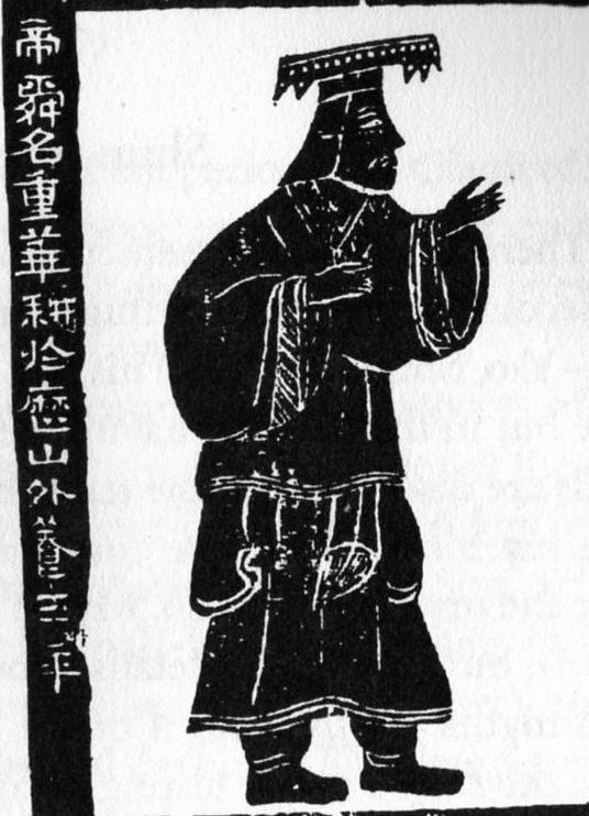 Emperor Shun, one of the mythical Five Sovereigns.Inscription reads: The God Shun, Zhong Hua, plowed beyond Mount Li; in three years he had developed it (Birrell, Chinese Mythology, ISBN 0-8018-6183-7, p.71 Bân-lâm-gú: Tè Sùn bîng Tiông-huâ. King î Li̍k-san, guē ióng sam liân./Tè Sùn miâ Tîng-huâ, king î li̍k-suann, guā iúnn sann-nî. 帝舜名重華，耕於歷山，外養三年。